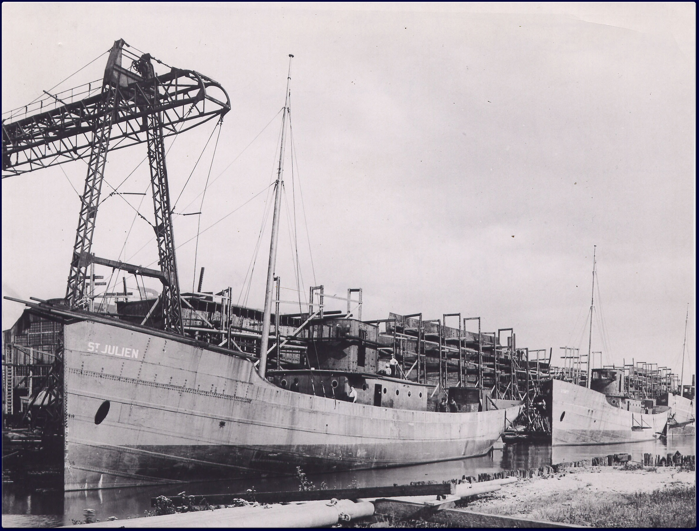 Photograph showing Canadian Battle class naval trawlers under construction in Toronto, Ontario. Left-right : HMCS St. Julien, HMCS Vimy, HMCS Ypres.